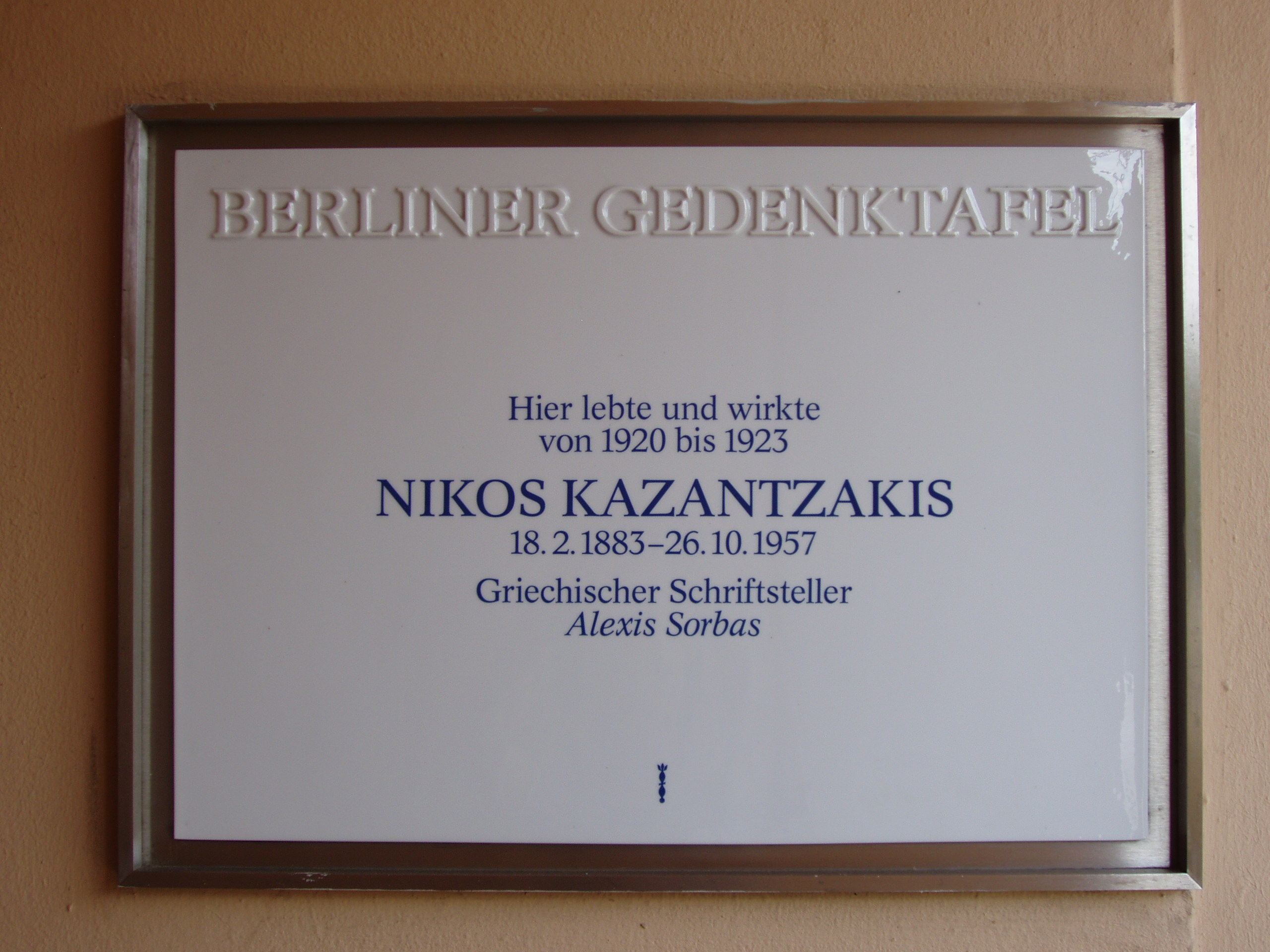 Berlin's commemorative plaque dedicated to Nikos Kazantzakis at street Unter den Eichen 63